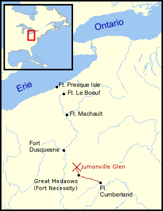 Goerge Washington's advance into the Ohio Country, April/May 1754.